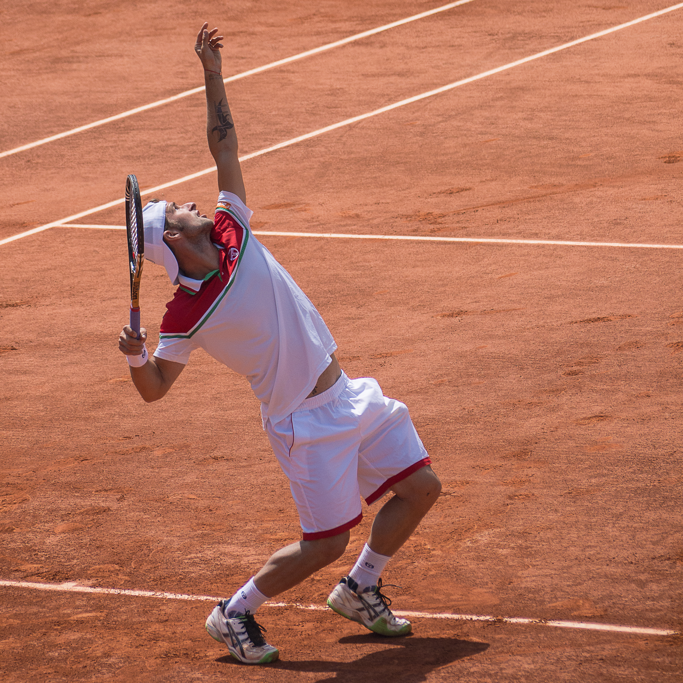 2ème tour Roland Garros 2012 : Roger Federer (SUI) def. Adrian Ungur (ROU)